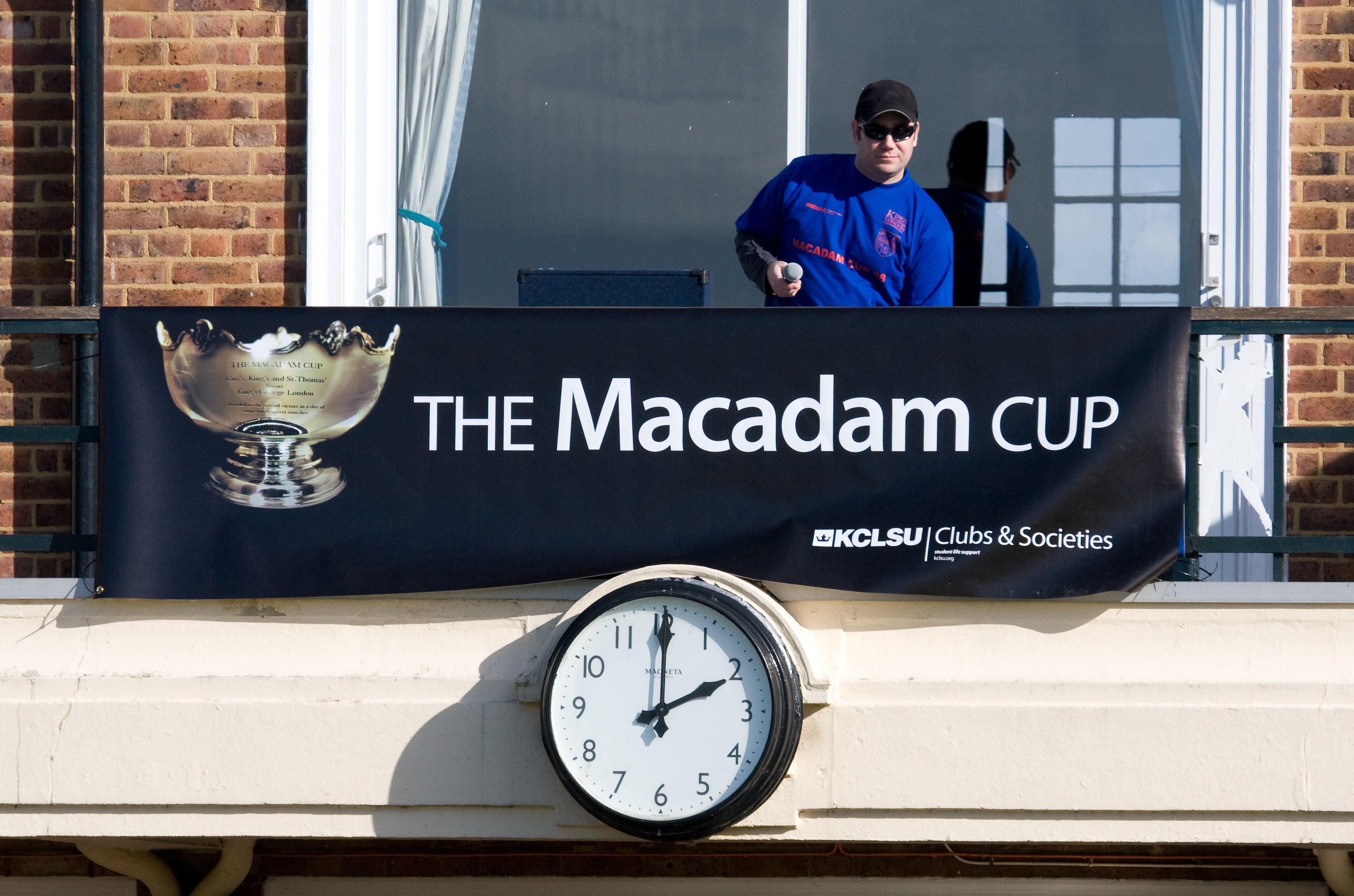 "The Macadam Cup" banner from the Macadam Cup 2008 competition, held on 27 February 2008 at Berrylands sports ground.